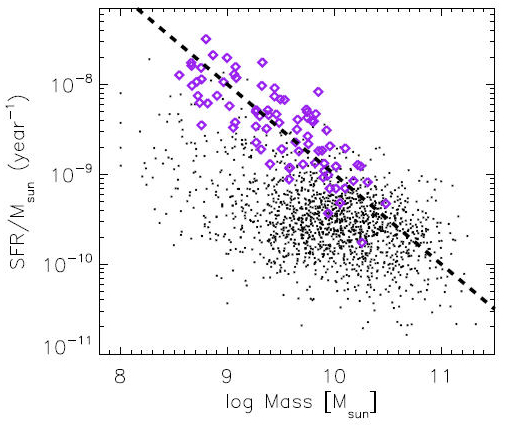 Scientific graph for Peas